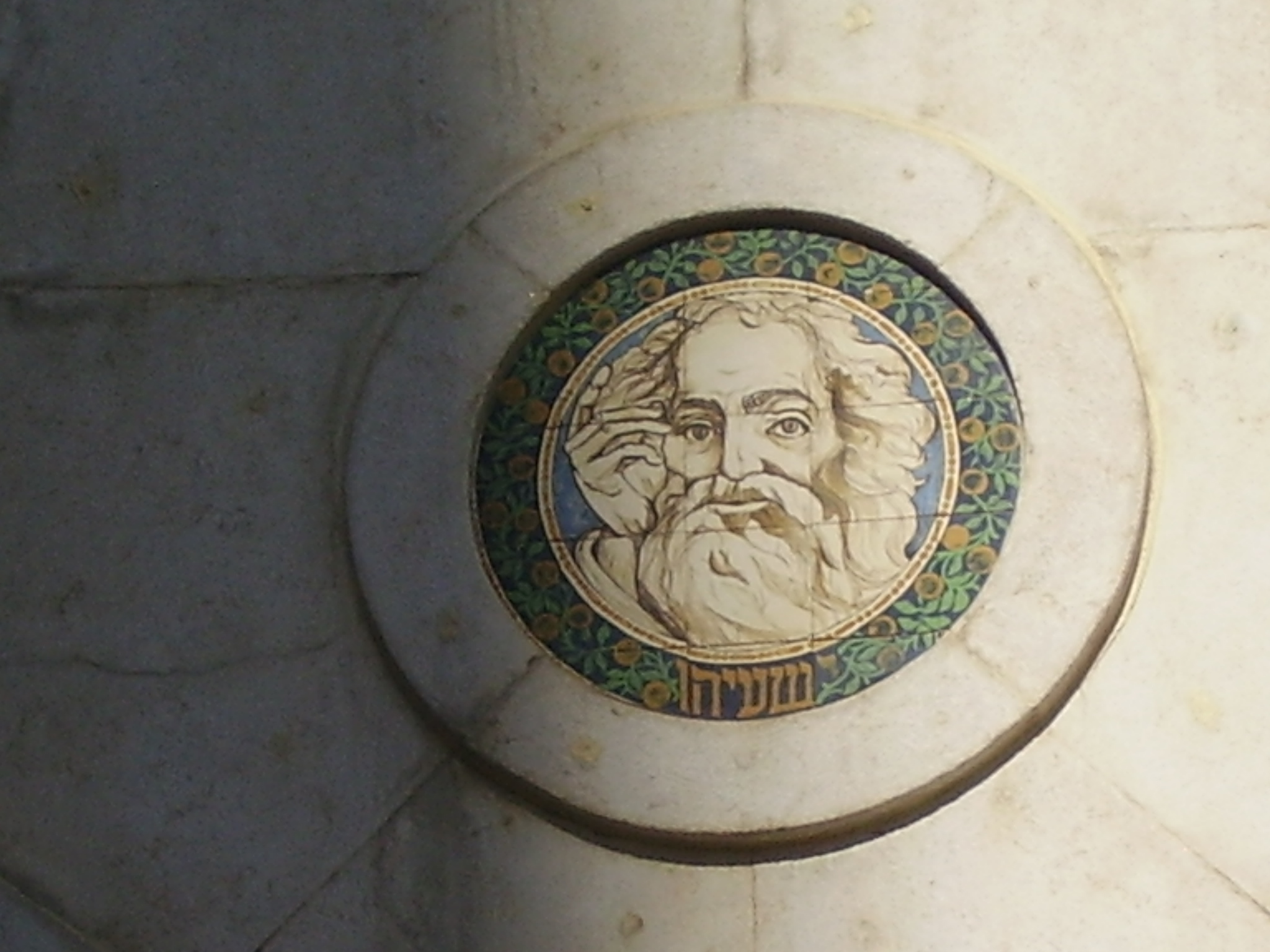 katzman house in tel aviv